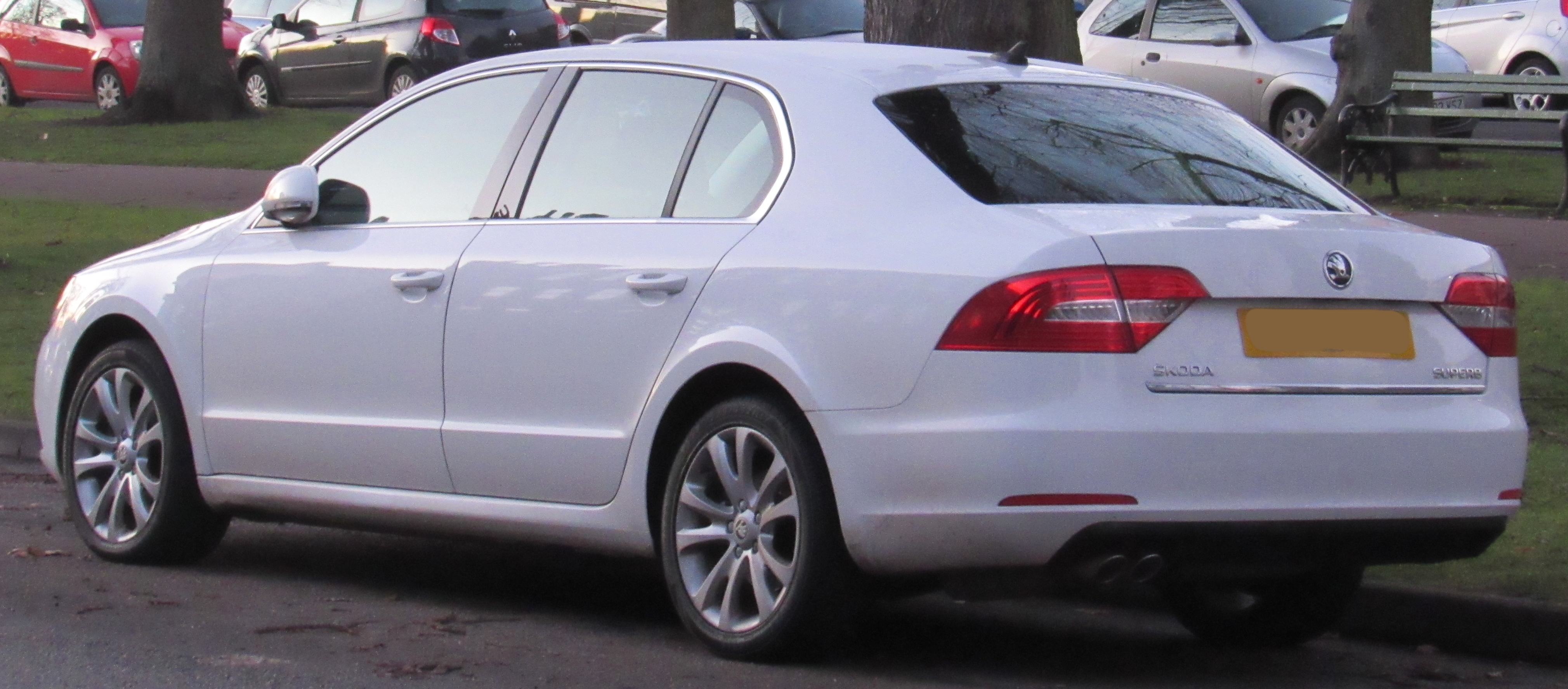 2014 Skoda Superb SE TDi CR S-A 2.0 facelift Rear Taken in Leamington Spa